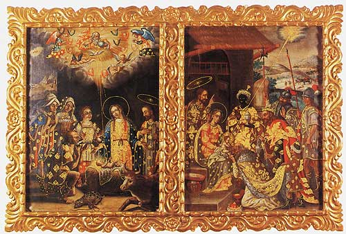 Diptic. “The adoration of the shepherds” & "The adoration of the Three Kings" (Potosí s. XVIII). National Art Museum, La Paz, Bolivia. Latinamerican baroque.